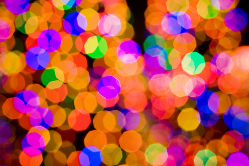 An example of the bokeh effect produced by a Canon 85mm prime f/1.8 lens.